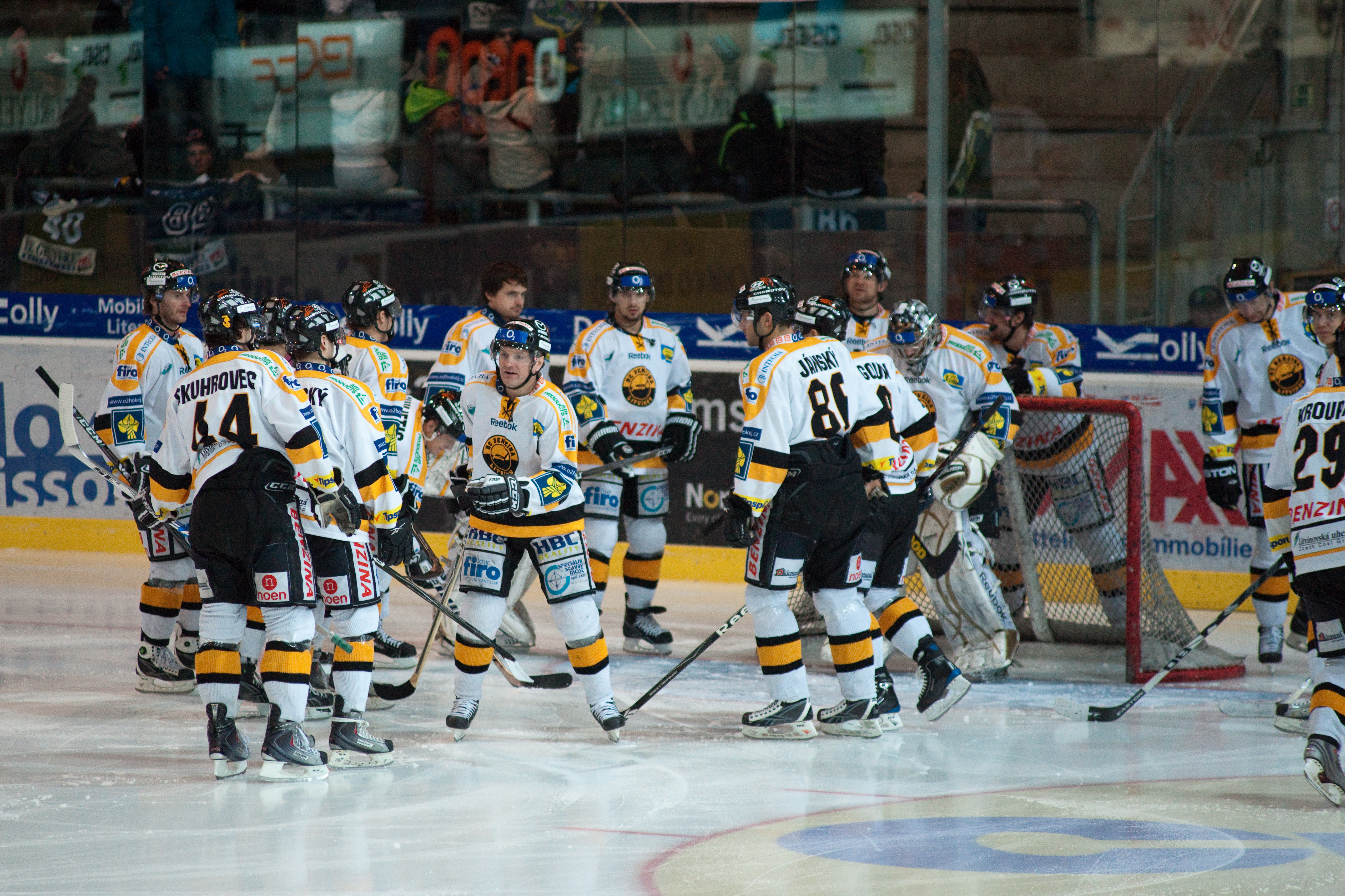 HC Litvínov, exhibition game vs. Fribourg-Gottéron, 20th February 2010.